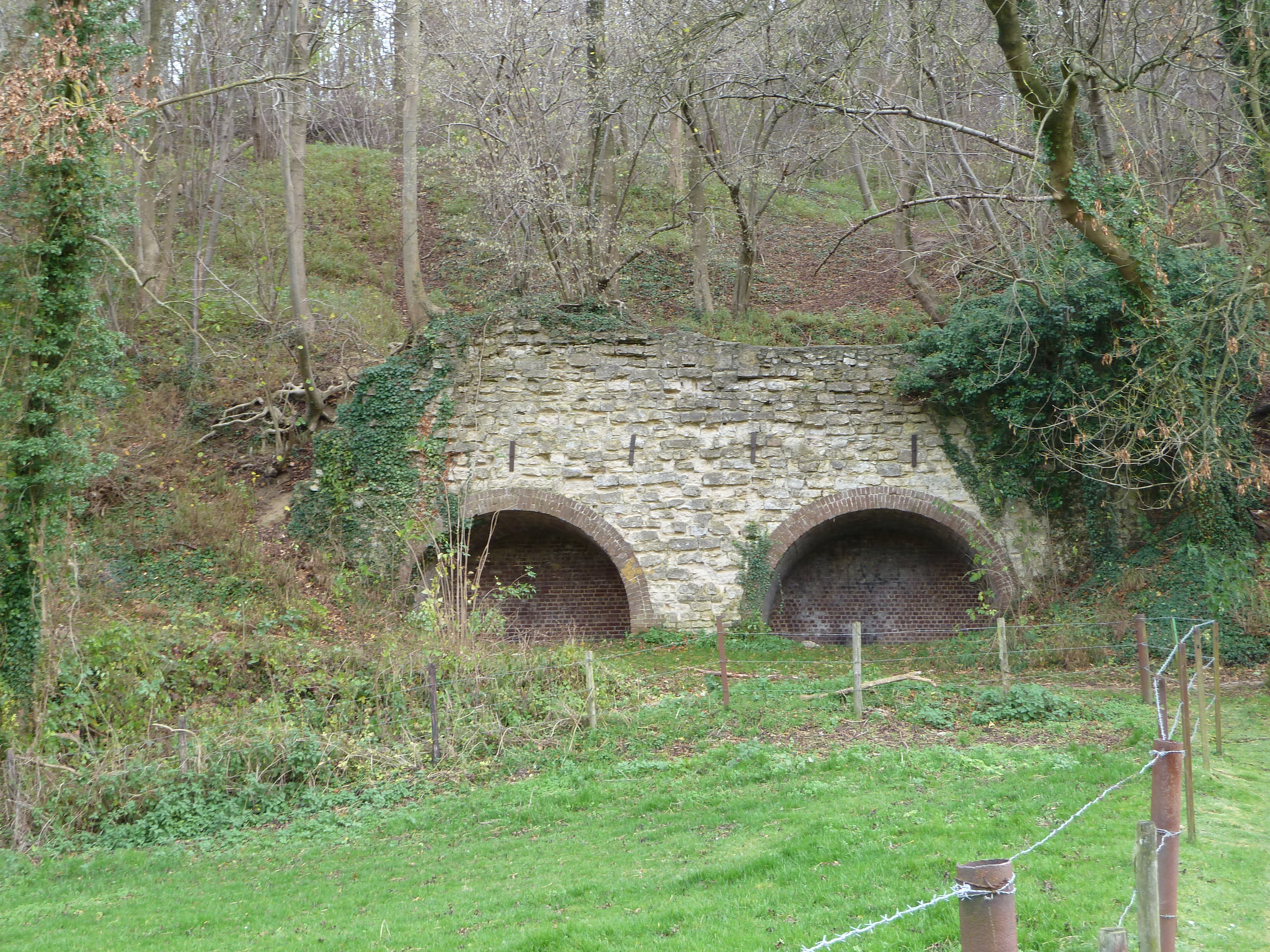 Chalk burners eastside Daelsweg, Ubachsberg, Limburg, the Netherlands